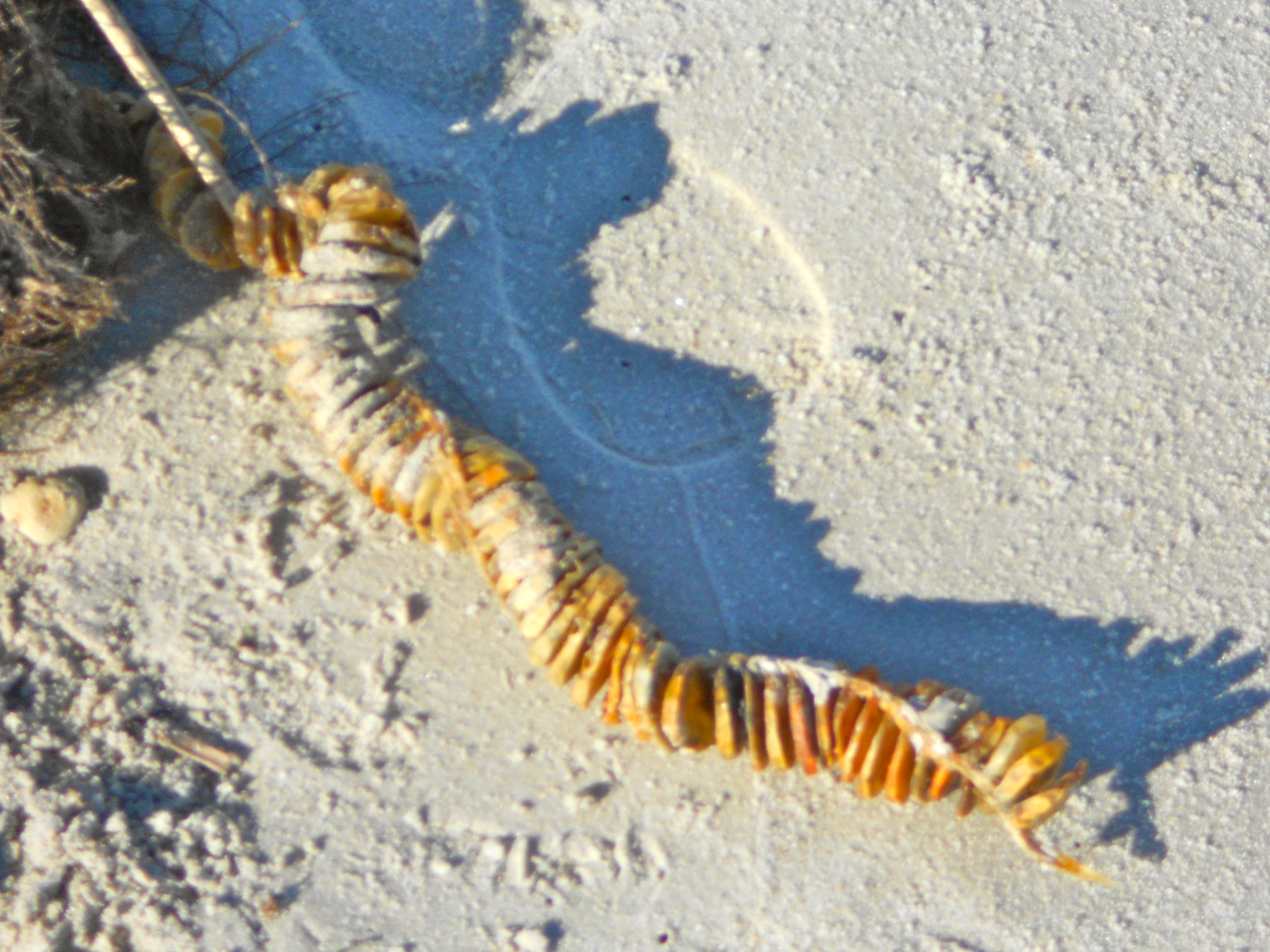 Egg cases of the knobbed whelk (Busycon carica) on the beach in Villas, New Jersey on Delaware Bay.